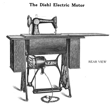 Singer model 27 with Diehl electric motor conversion